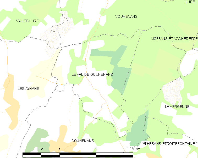 Map of French municipality